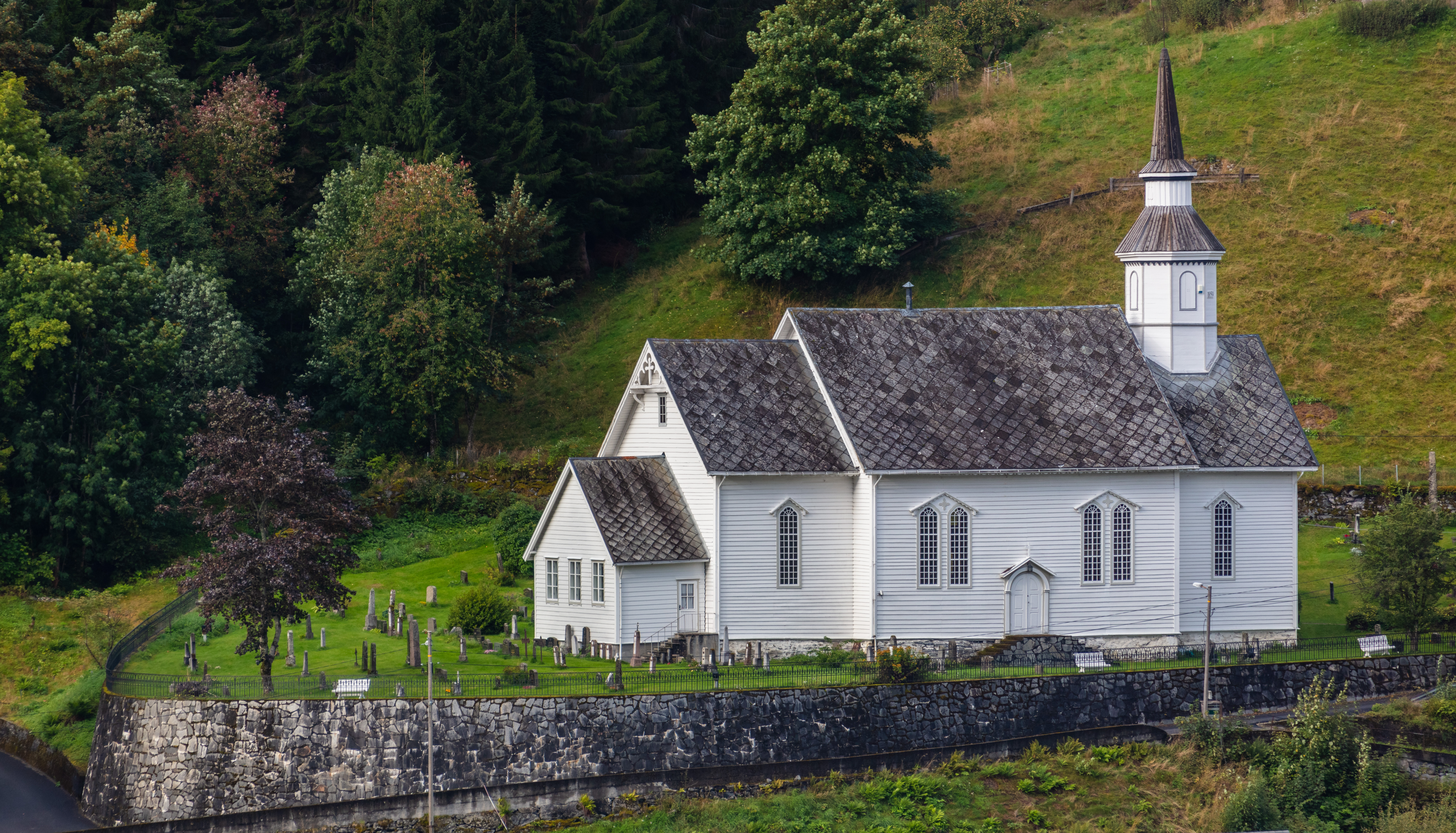 Sunnylven Church, Hellesylt, Norway